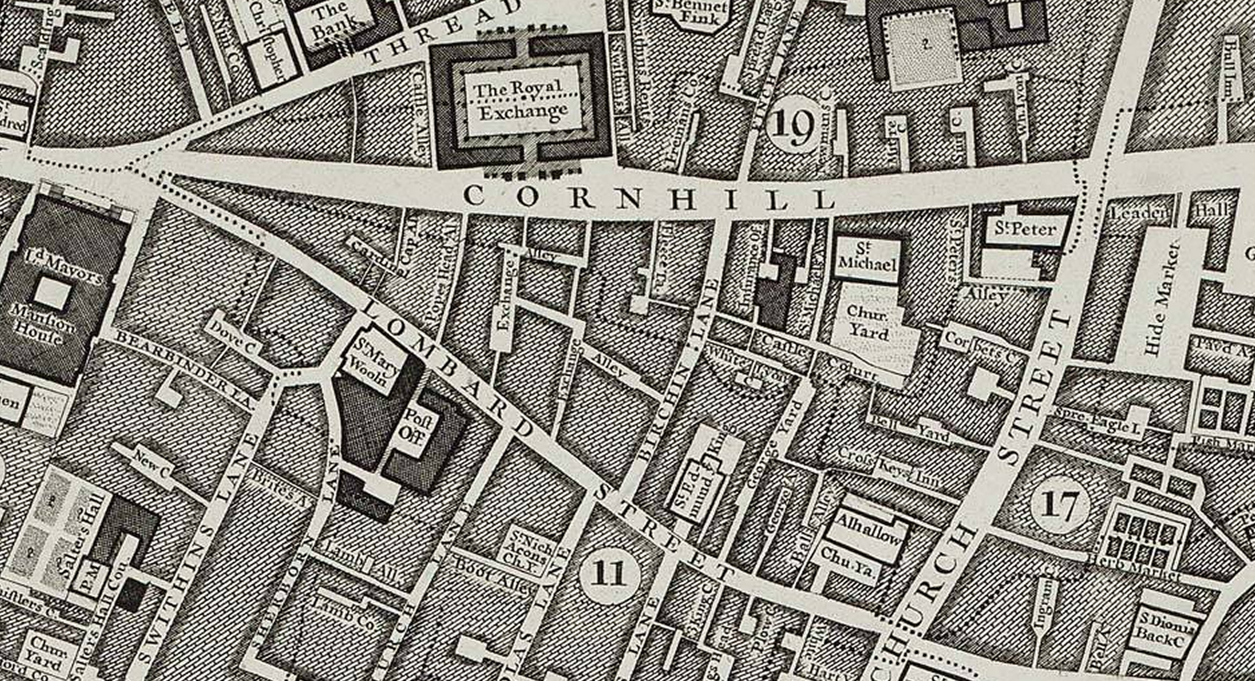 Detail, showing the location of Exchange Alley, from: John Rocque's map, London, Westminster and Southwark, First Edition (1746)